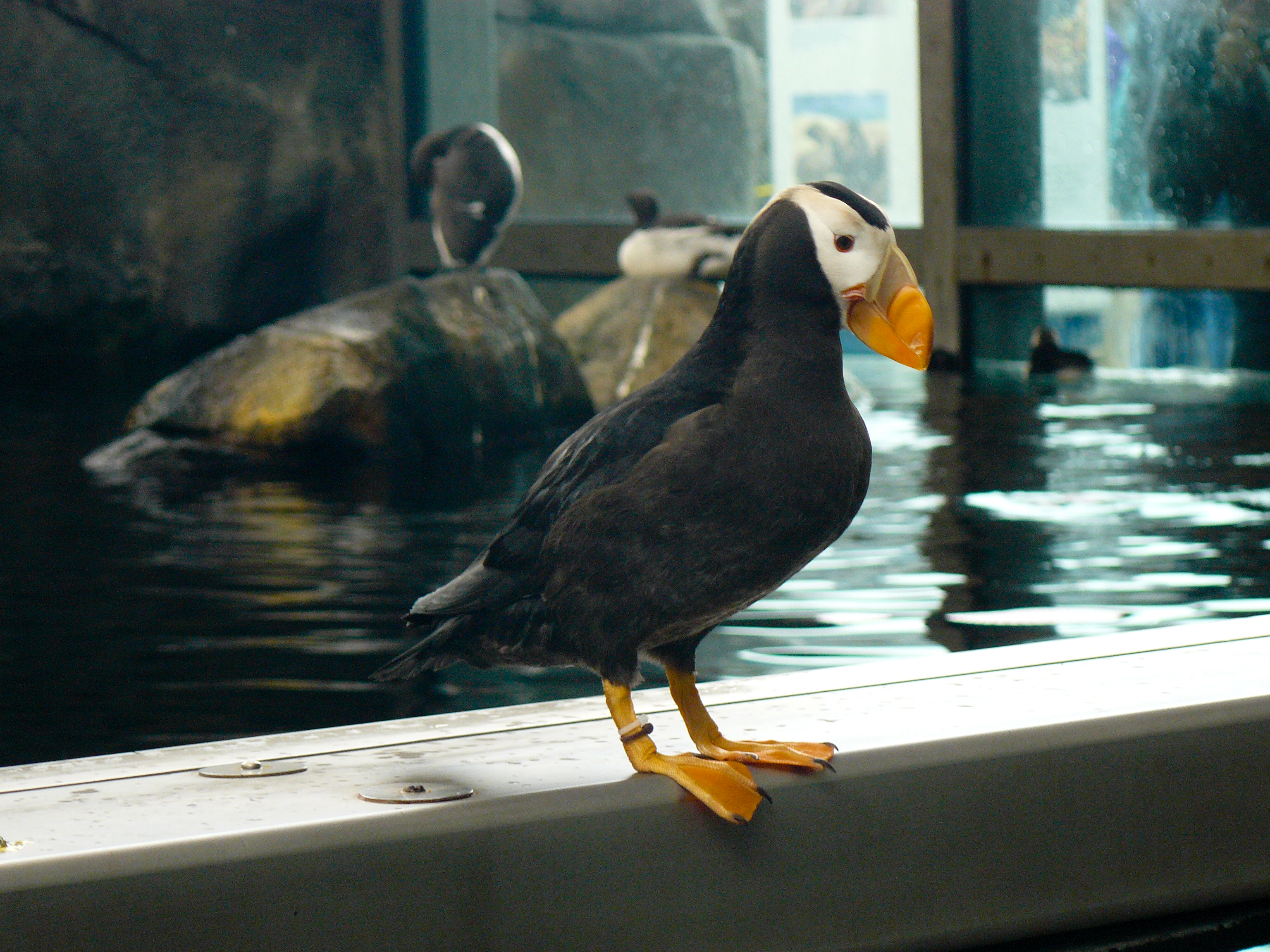 Tufted Puffin (Fratercula cirrhata), adult, moulting. Alaska SeaLife Center.